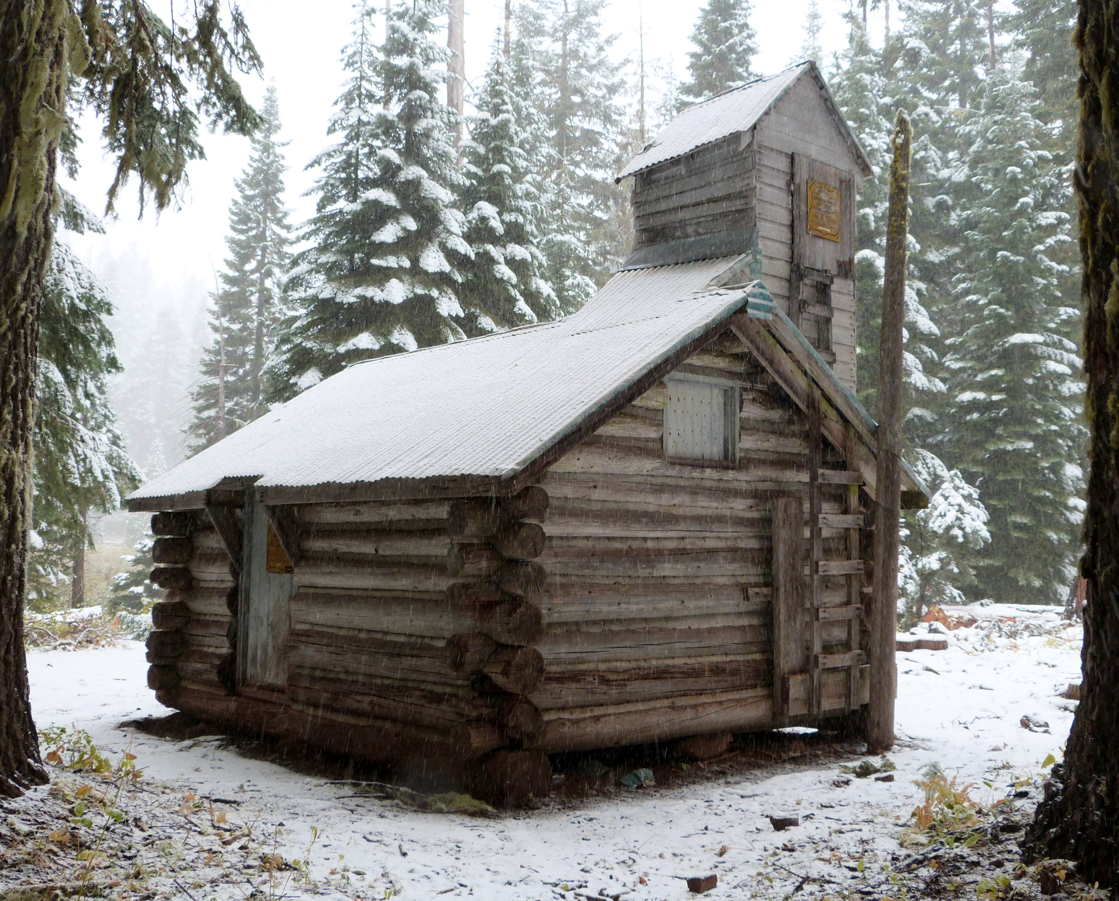 The historic Whaleback Snow-Survey Cabin (built 1937), located in the Rogue River–Siskiyou National Forest, Oregon, United States, is listed on the U.S. National Register of Historic Places.